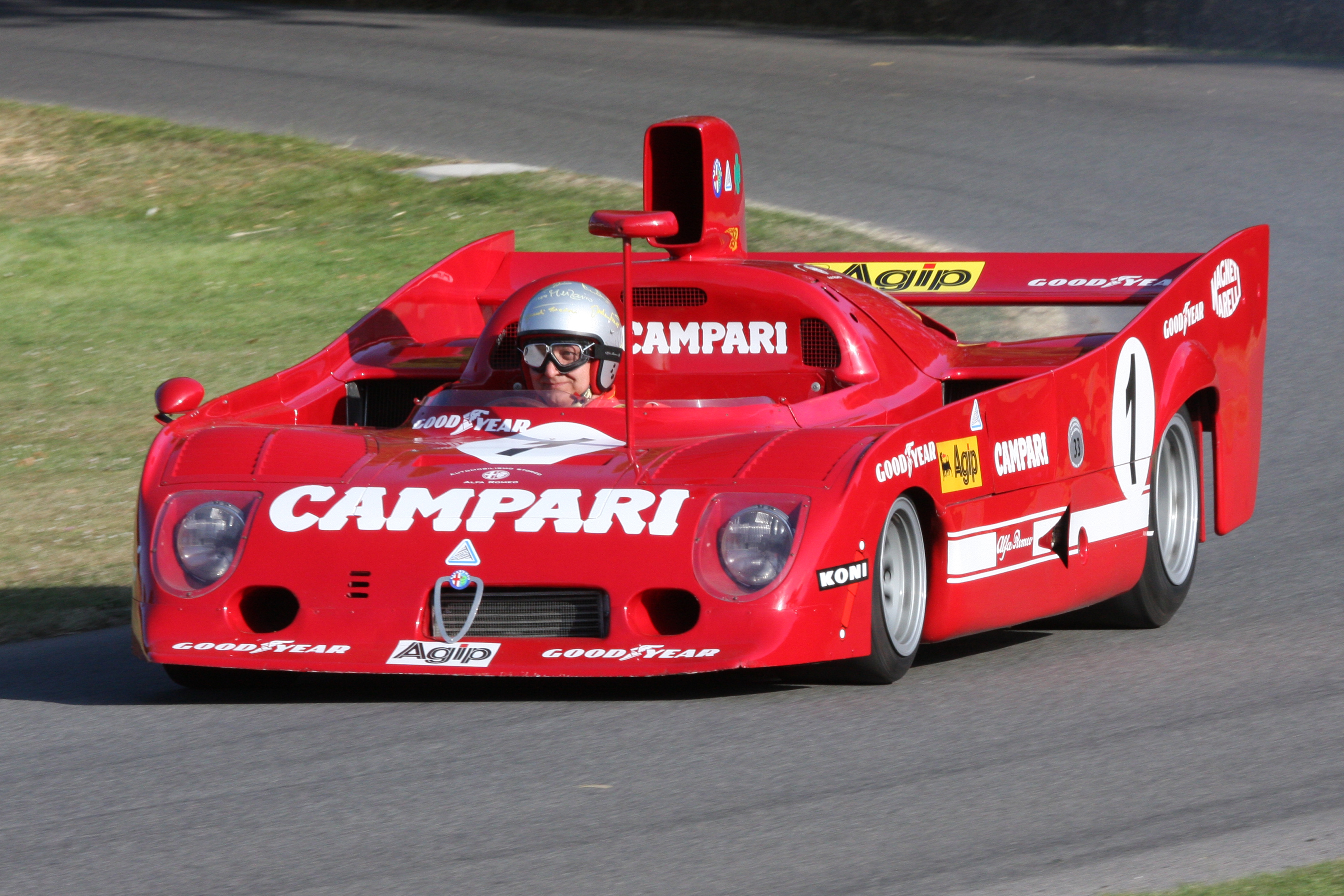 1975 Alfa Romeo Tipo 33 TT 12 at Goodwood 2009